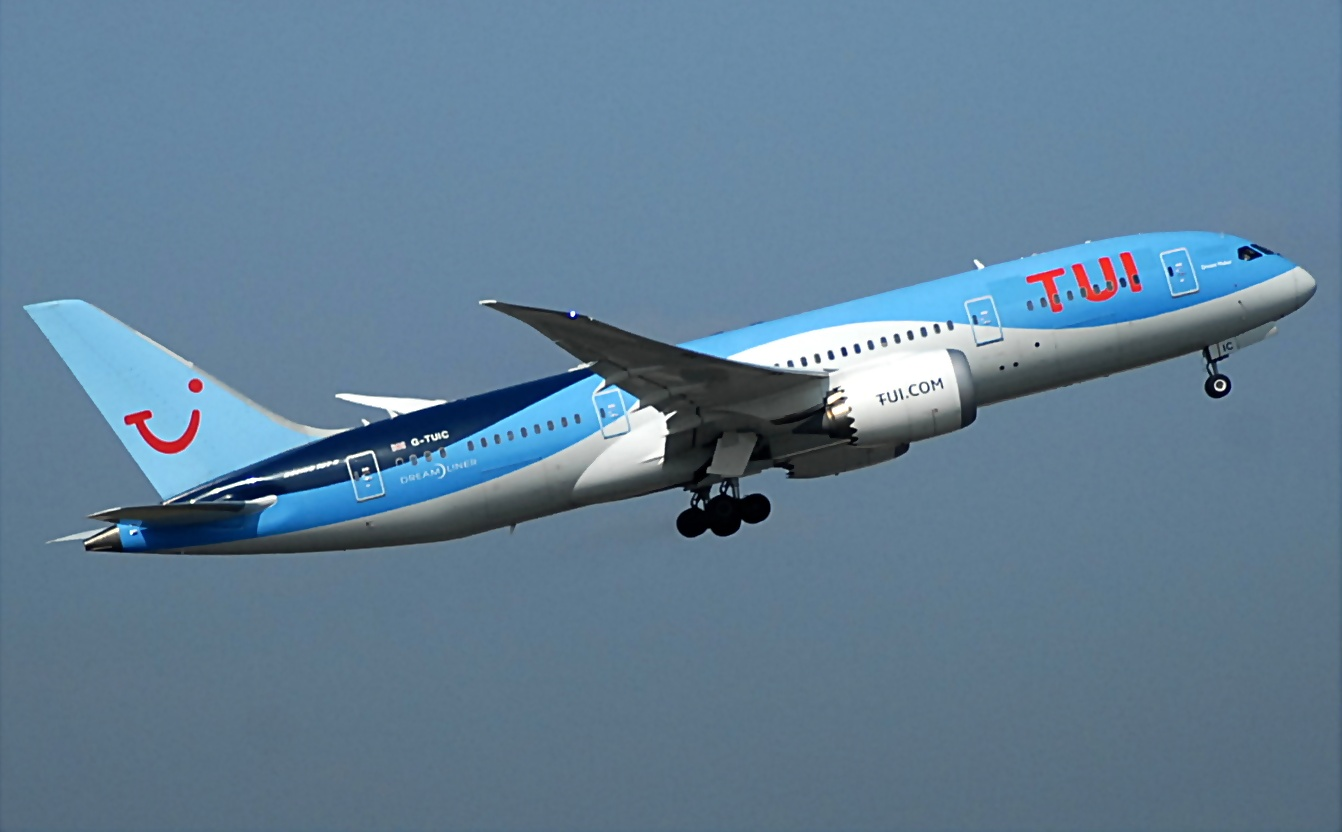 Manchester Airport (EGCC)